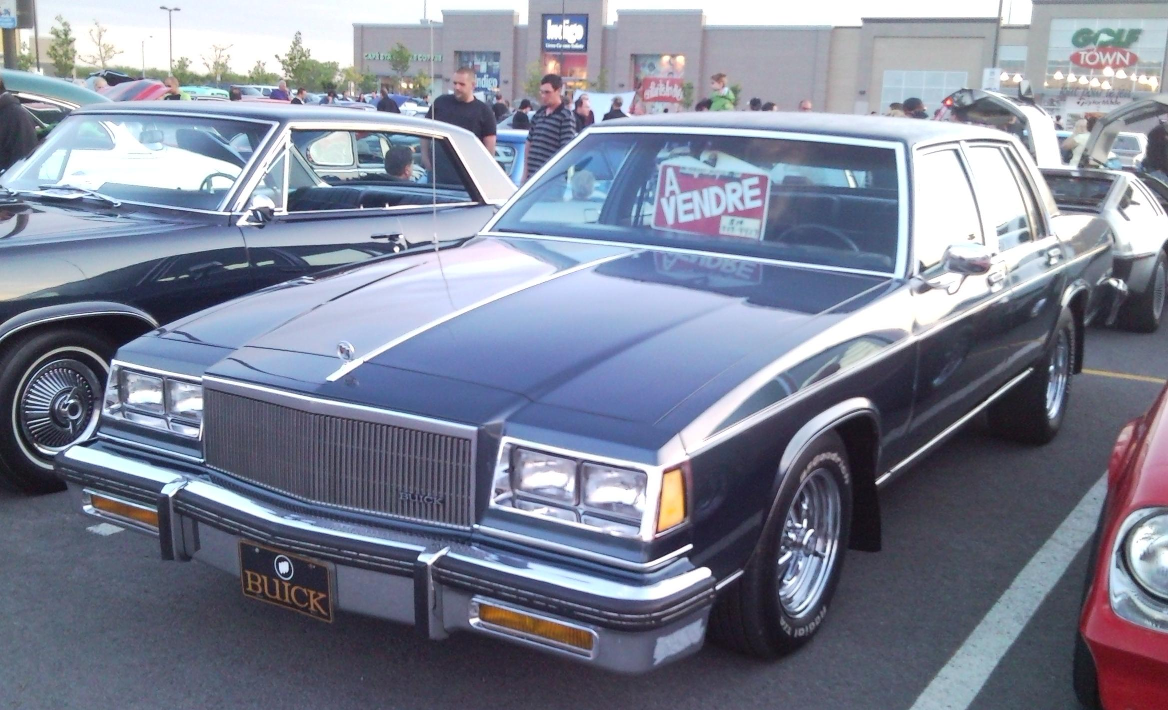 1984 Buick LeSabre photographed in Laval, Quebec, Canada at Les chauds vendredis.